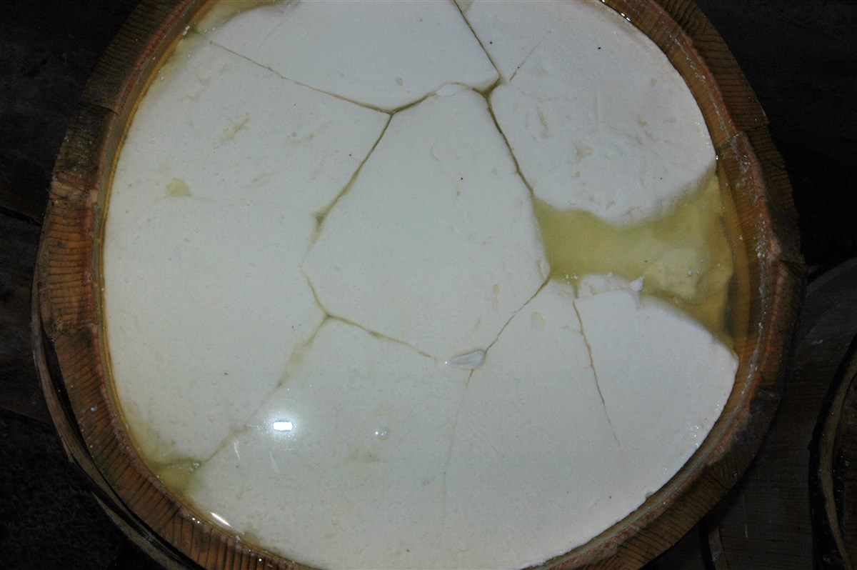 Project "Dicovering Pester" (Projekat "Otkrivanje Peštera"). Sunny winter landscape on the Pester plateau, in Serbia, with snow on mountain slopes and fields , villages and streams.